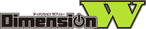 Dimension W logo